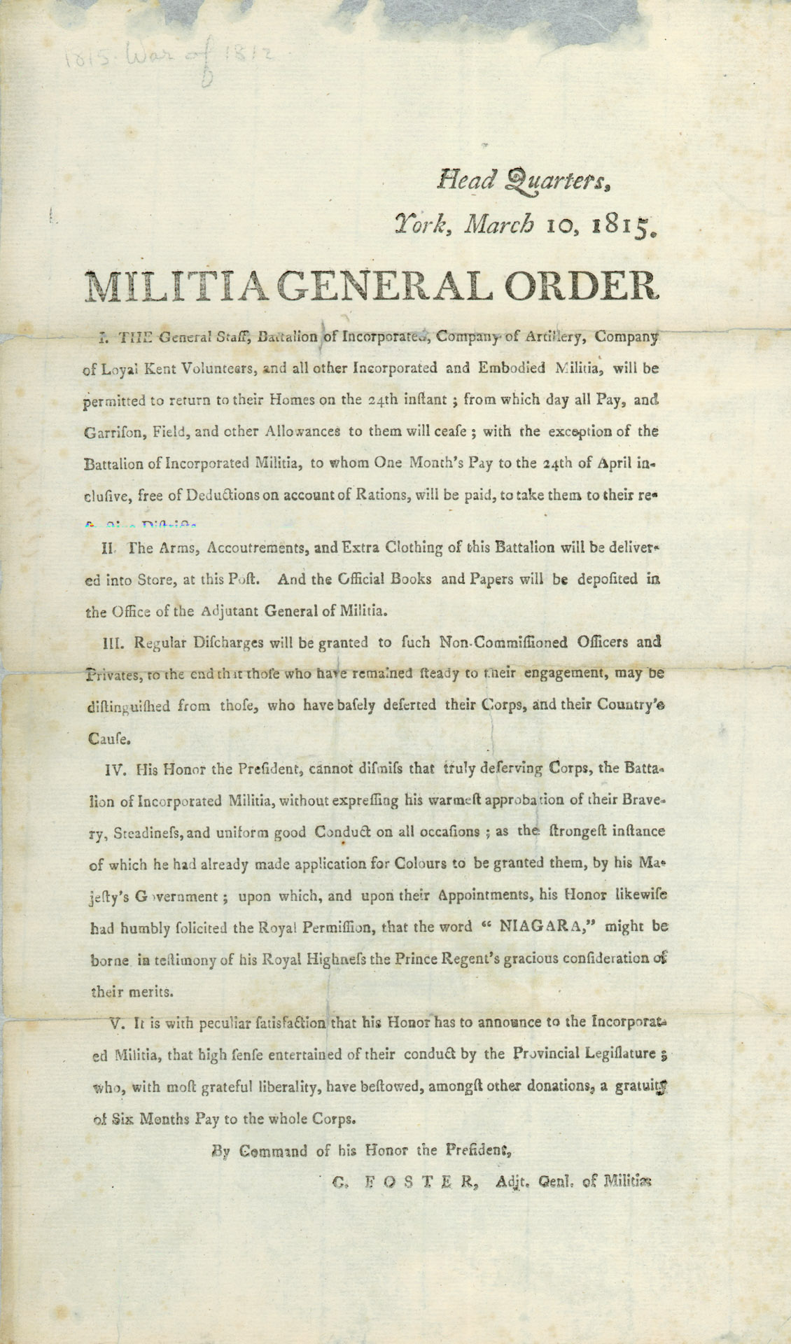 Militia General Order issued at York (future site of Toronto, Ontario, Canada) on March 10, 1815 and signed by Colley Lyons Lucas Foster (1778-1843)